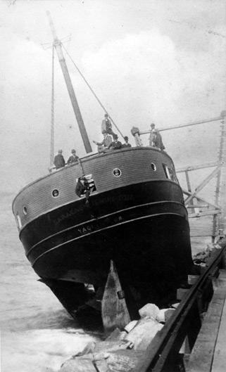 A photograph of the "Yaquina Bay" after running aground on the south jetty at the bay of her namesake. The wreckage was apparently refloated and run aground on the south beach of Yaquina Bay after being regarded a total loss and ruining her owners. She was formerly the SS Caracas of the Red "D" Line plying between New York and Venezuela.